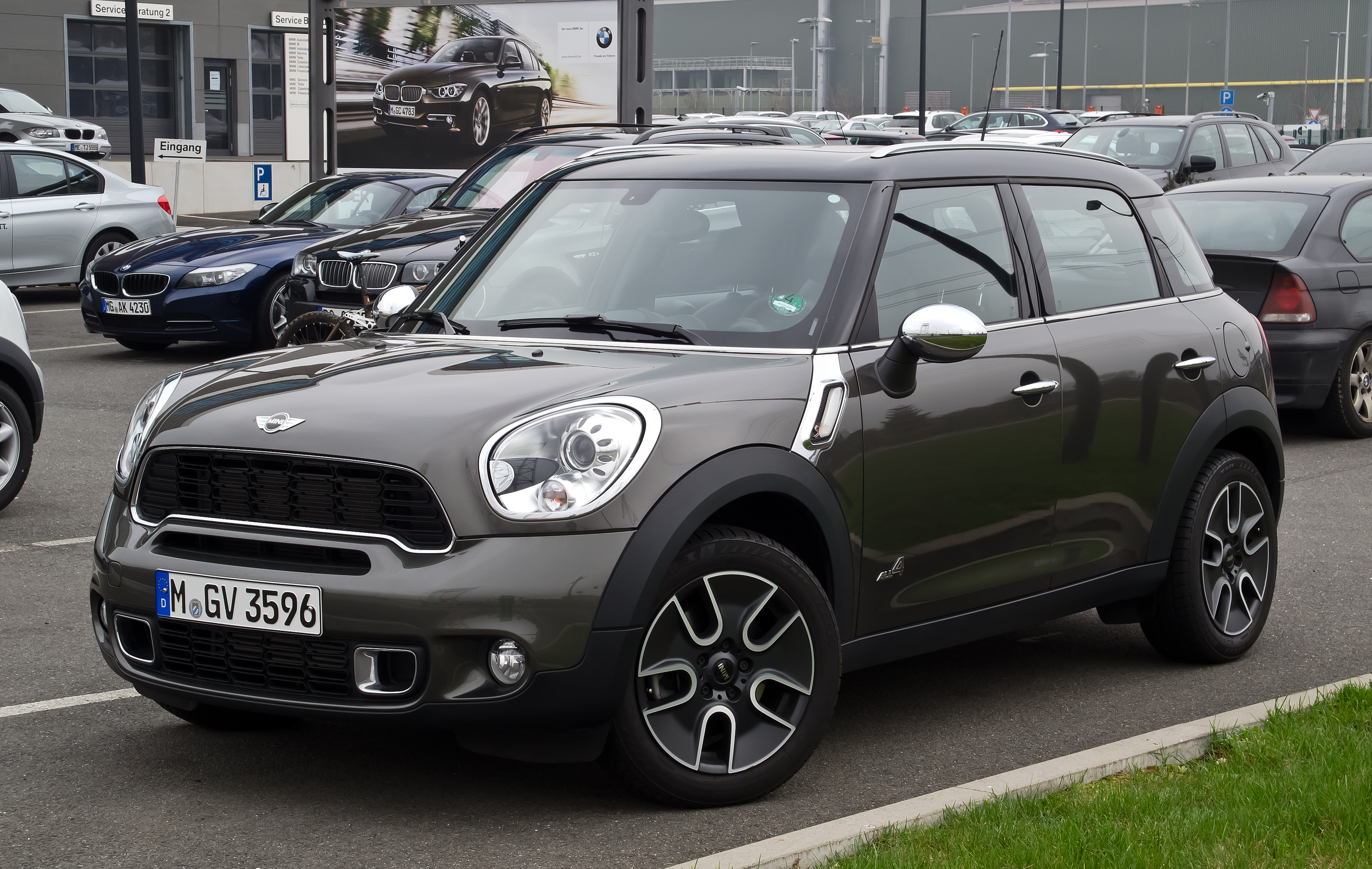 Mini Cooper S ALL4 Countryman (R60)